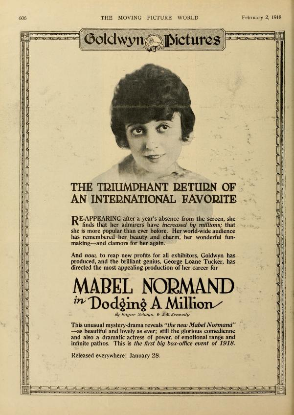 Advertisement in The Moving Picture World for the American comedy film Dodging A Million (1918) with Mabel Normand.